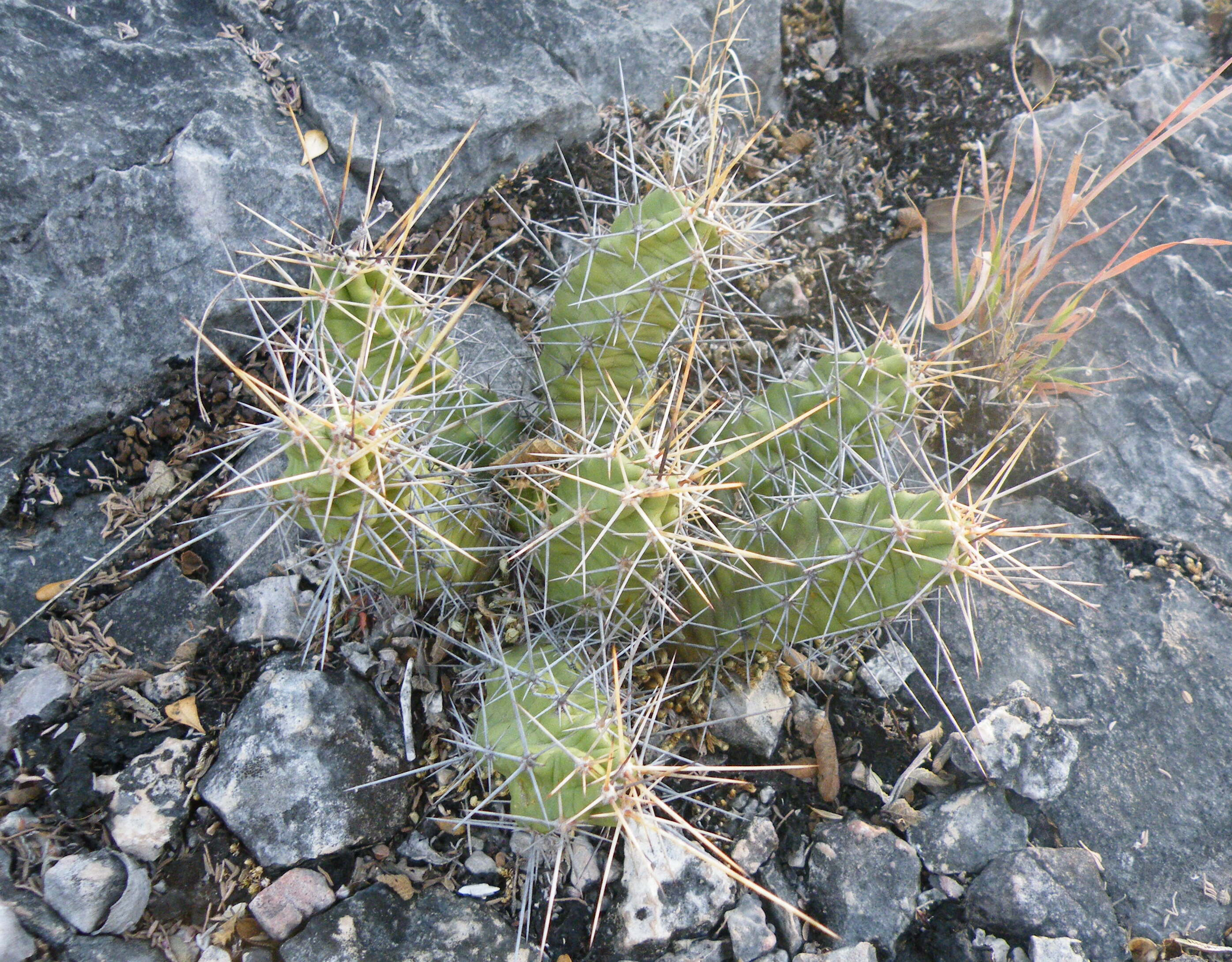 Echinocereus pentalophus — Ladyfinger cactus. In Cerritos Municipality, state of San Luis Potosí, Northeastern Mexico.